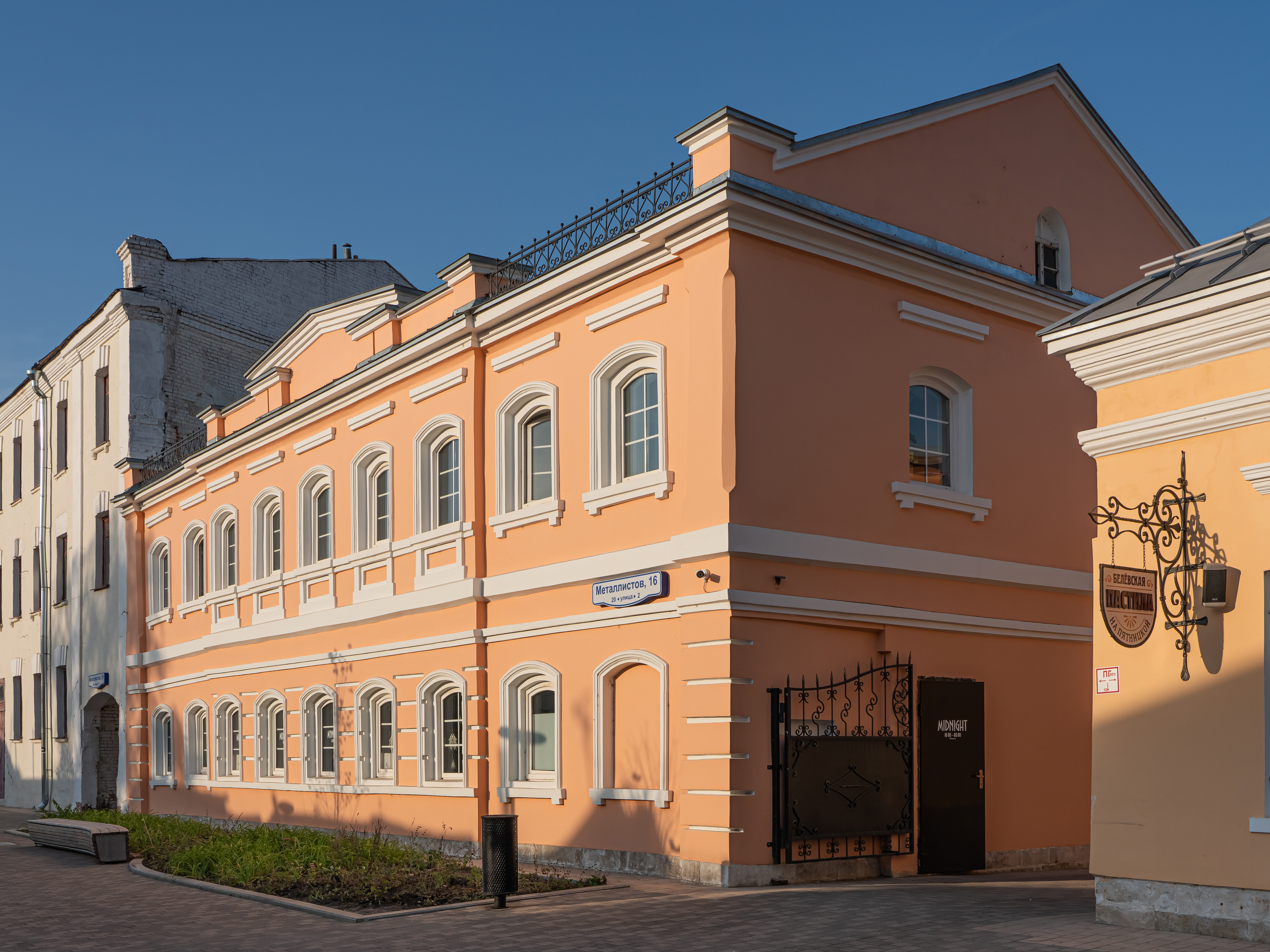 Building at Metallistov Street 16-B in Tula, Russia